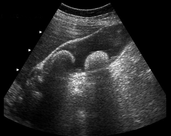 cholecystolithiasis, ultrasonography, sonography